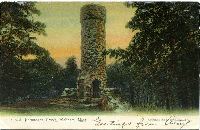 Norumbega Tower. Contradicting the caption on the card, the tower is actually in Weston, Massachusetts, not far from the Waltham line.